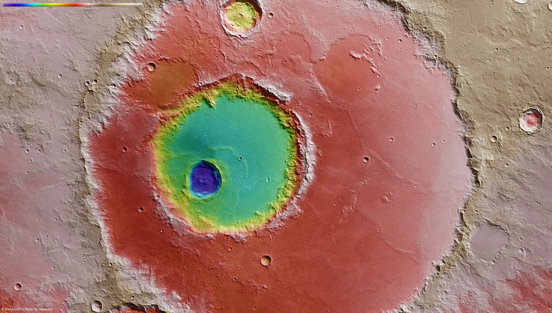 This colour-coded plan view is based on a digital terrain model of the region, from which the topography of the landscape can be derived. The colour coding highlights the depth of the central impact crater, reaching down almost 2600 m compared to the region surrounding Hadley Crater itself. Deep craters like these provide scientists with a view through the historical timeline of Mars’ formation. Centred at around 19°S and 157°E, the image has a ground resolution of about 19 m per pixel.